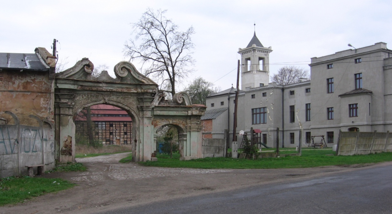 The gate to the former palace, grange and granary in Galowice near Wrocław, Lower Silesia, Poland (zabytek nr rejestr. A/3965/382/W) Traces of small rail track can be seen under the gate. This grange-rail has been connecting granary with distillery and sugar-mill.